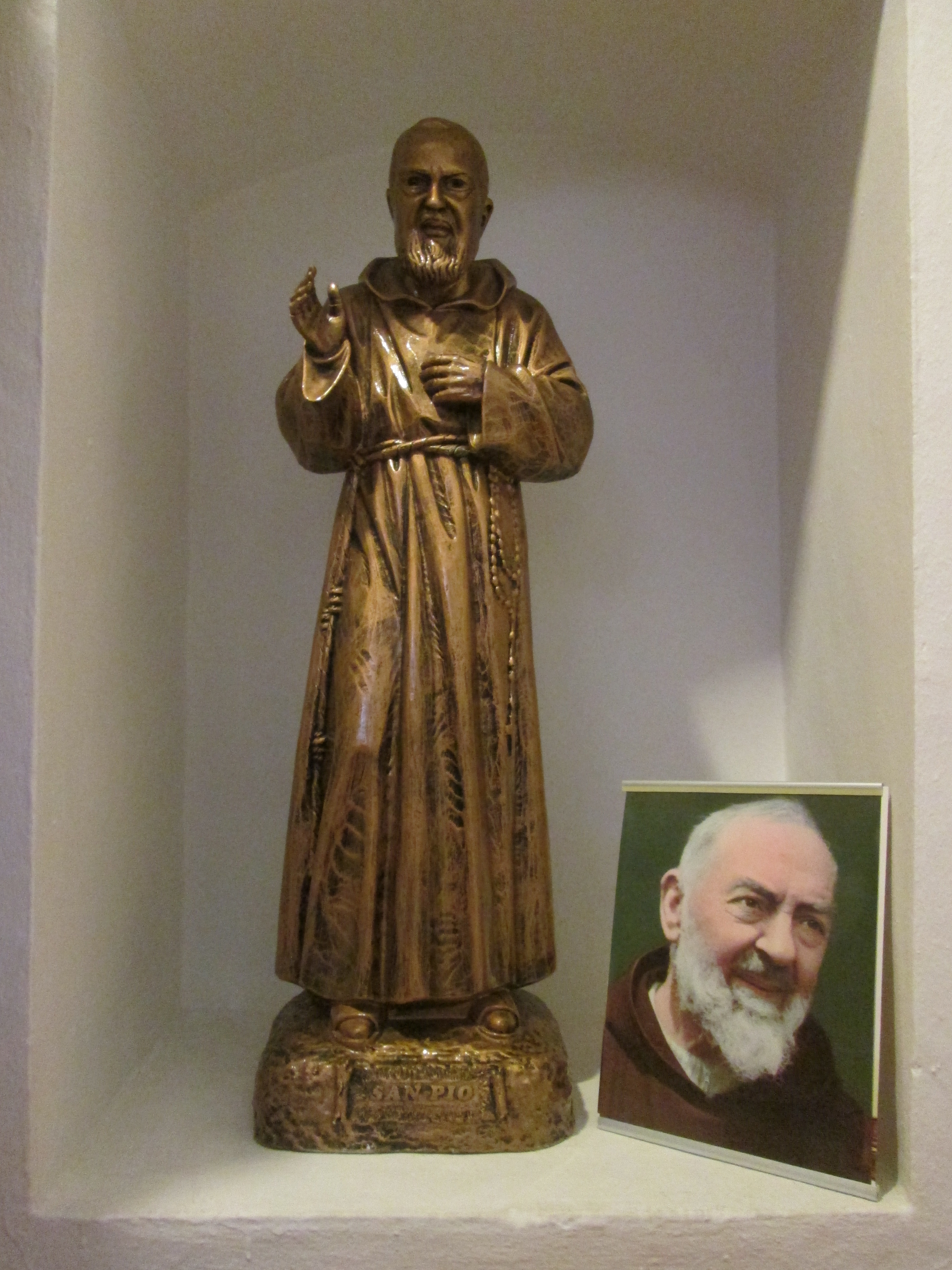 Statue of Father Pio exposed at Chiurch Santa Gertrudis de Fruitera (Ibiza - Santa Eularia des Riu - Spain)